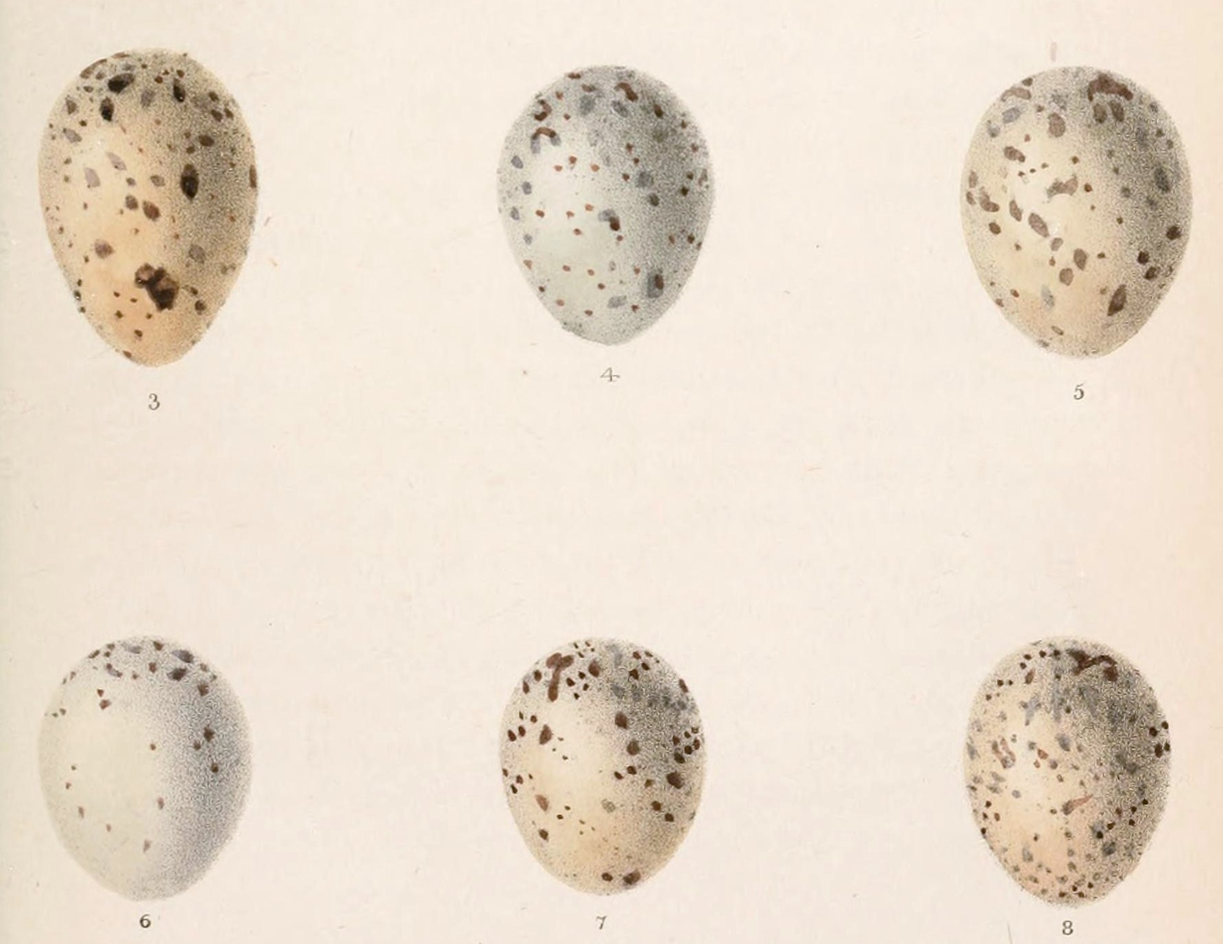 « Cyanopica cooki » = Cyanopica cooki (Iberian Magpie) - eggs